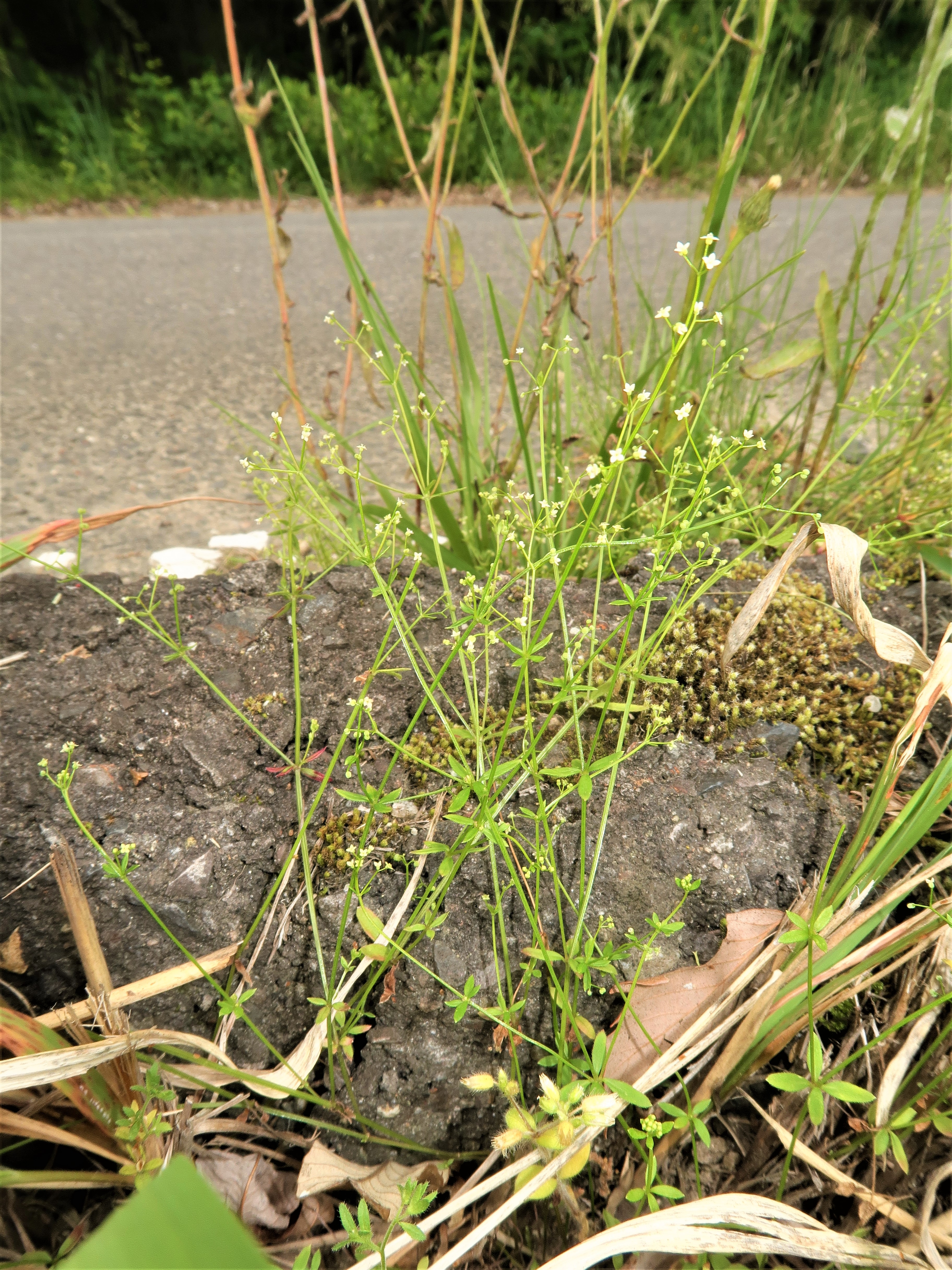 Galium gracilens , Naka-dori area, Fukushima pref., Japan